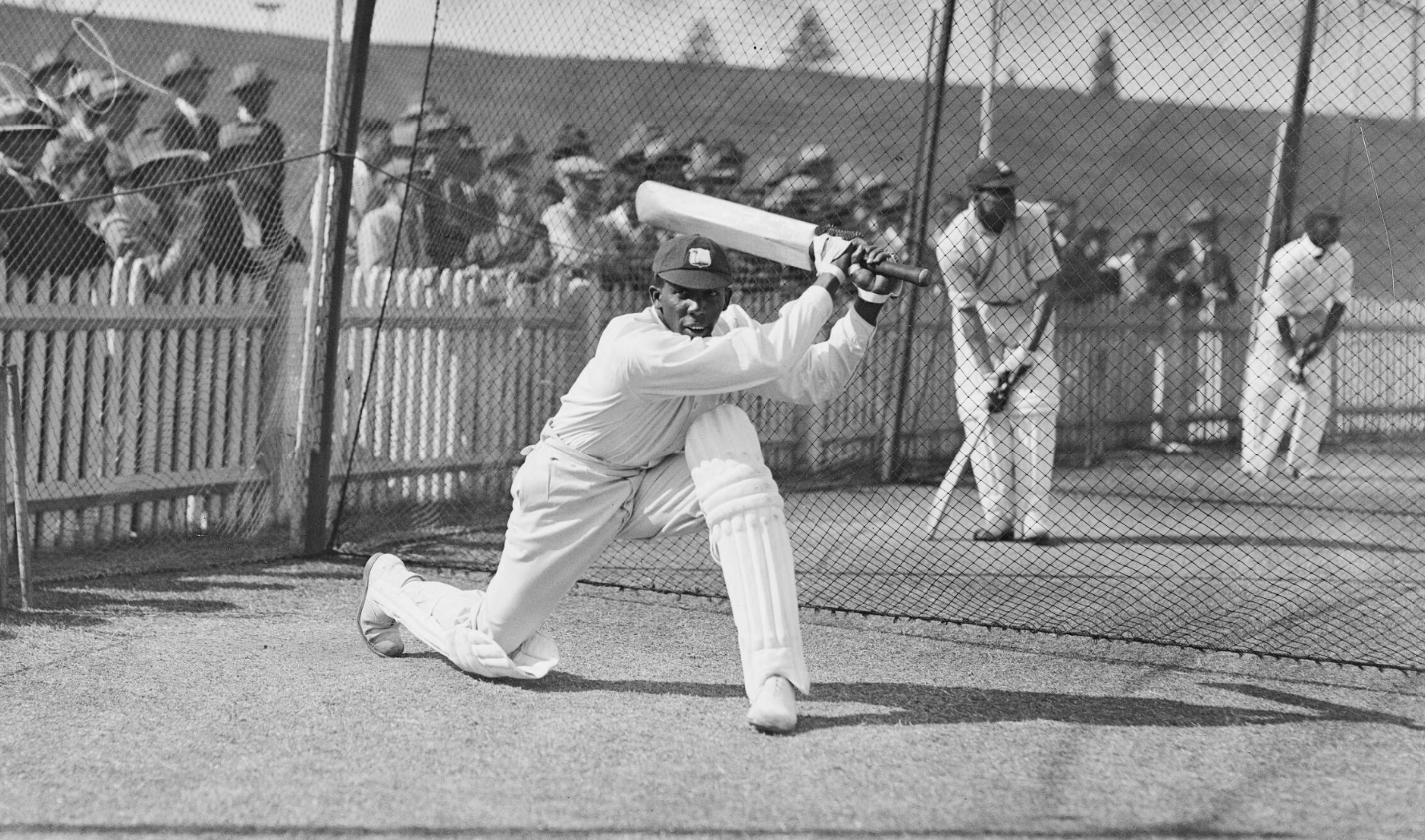 Learie Constantine practising his batting in the nets during the West Indian cricket team's tour of Australia in the 1930–31 season